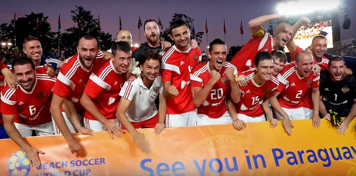 Russia national beach soccer team